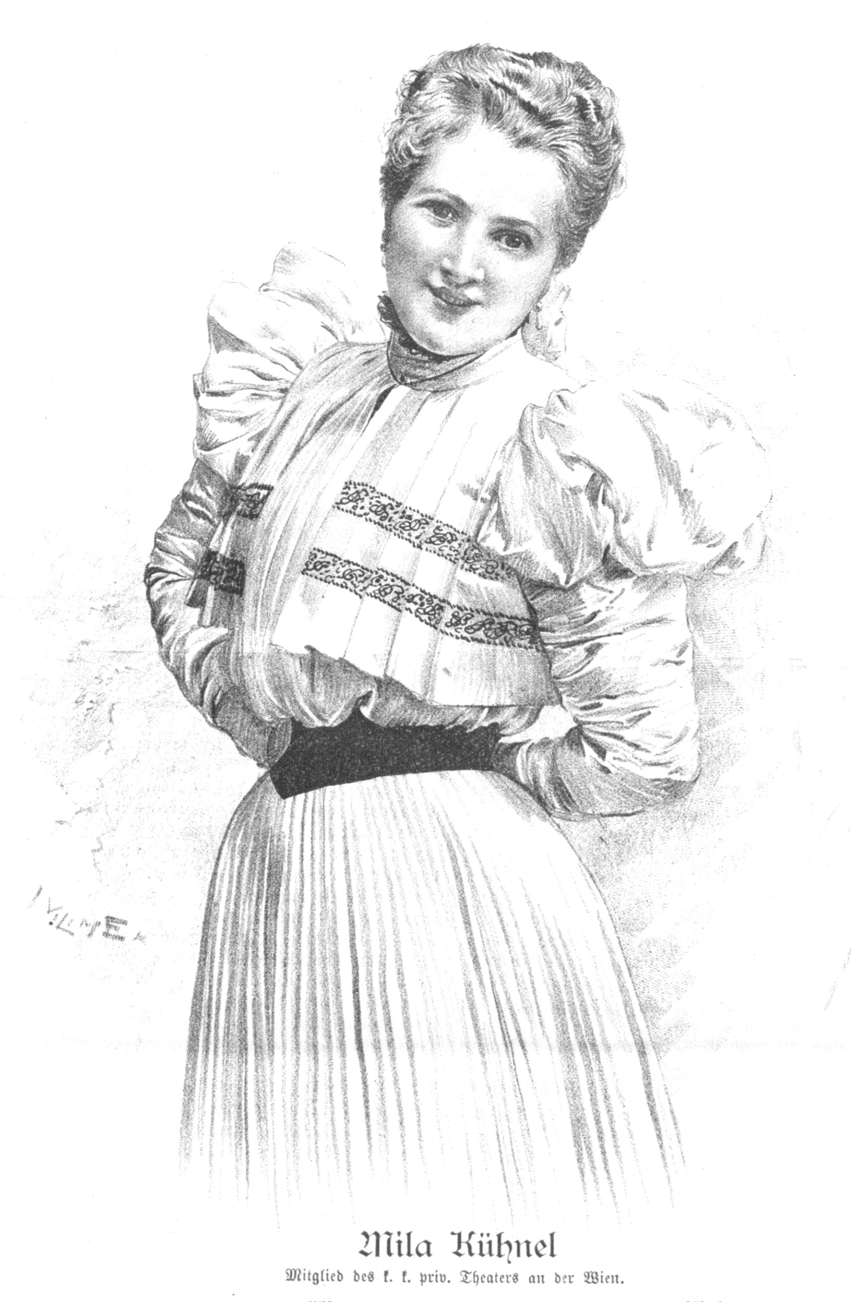 Portrait of Mila Kühnel, Austrian actress and singer